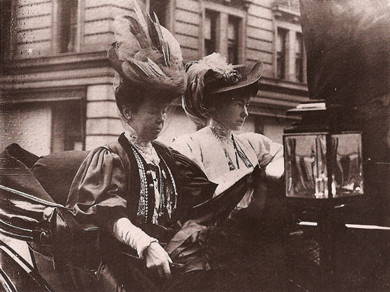 Alice Claypoole Gwynne Vanderbilt and her daughter Gertrude Vanderbilt in her carriage at Newport (RI), summer 1895